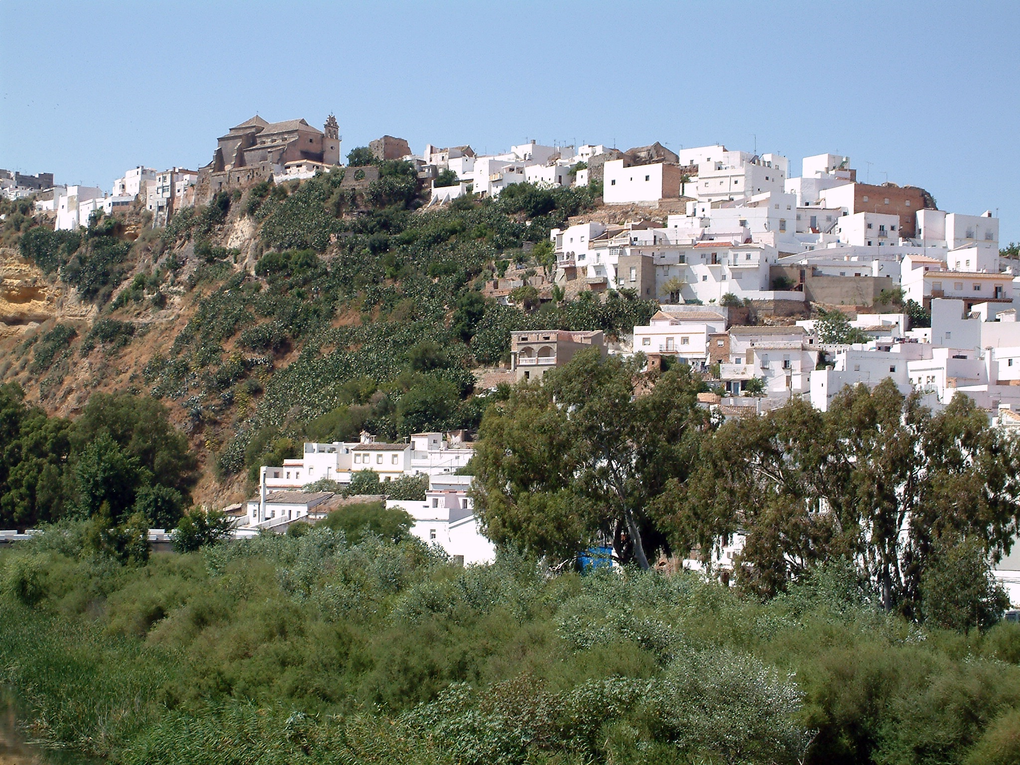 Arcos de la Frontera is a town in Cadiz, southern Spain. Taken by Jesse Varner, July 10, 2003